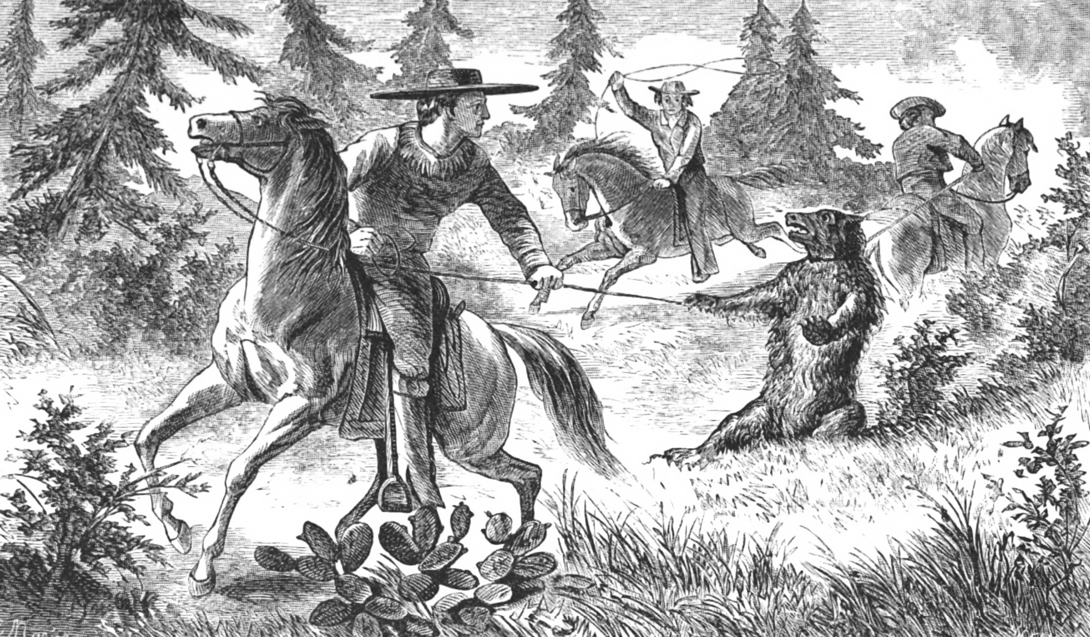 A La California (1873): Description and travel; Social life and customs written by Colonel Albert S. Evans. The number is the page number in the book. The words are the captions with each image. Follow the link to the full book.